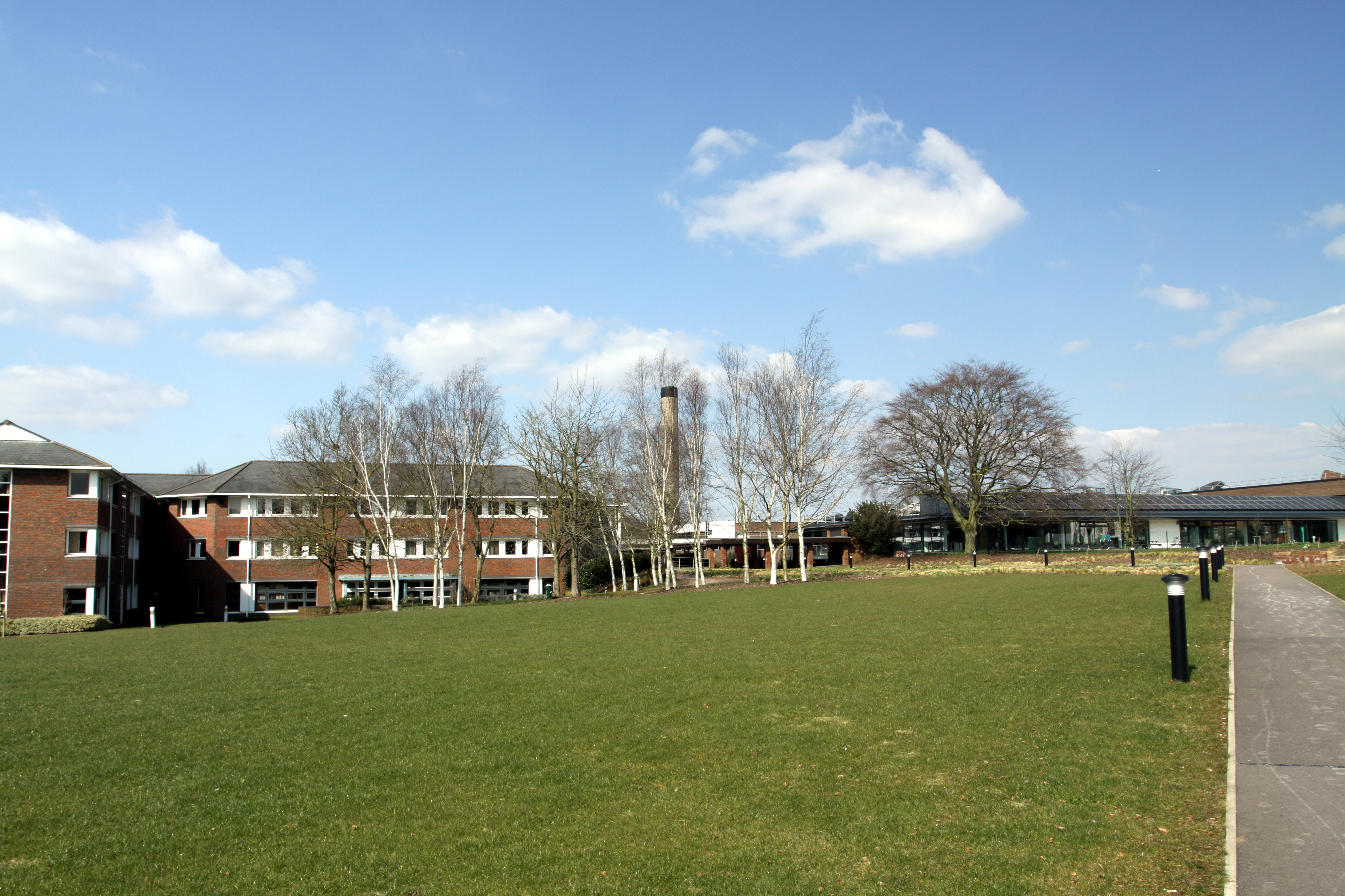 Harlock Building at Open University Campus in Milton Keynes, Great Britain. - Google Maps - Google Earth